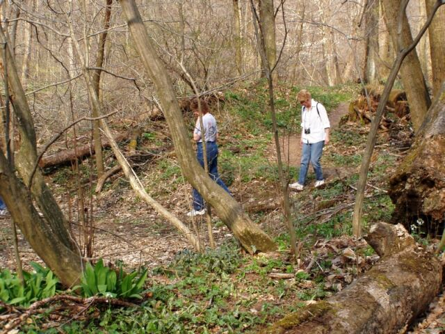 Heron Rookery Trail at Indiana Dunes National Lakeshore, Indiana